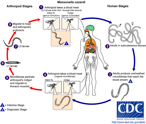 Mansonella ozzardi Life Cycle